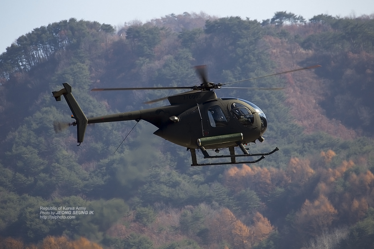 2012. 12 '탑 헬리건'을 향한 무한질주, 육군항공 사격대회 현장을 가다 Rep. of Korea Army Top Heligun